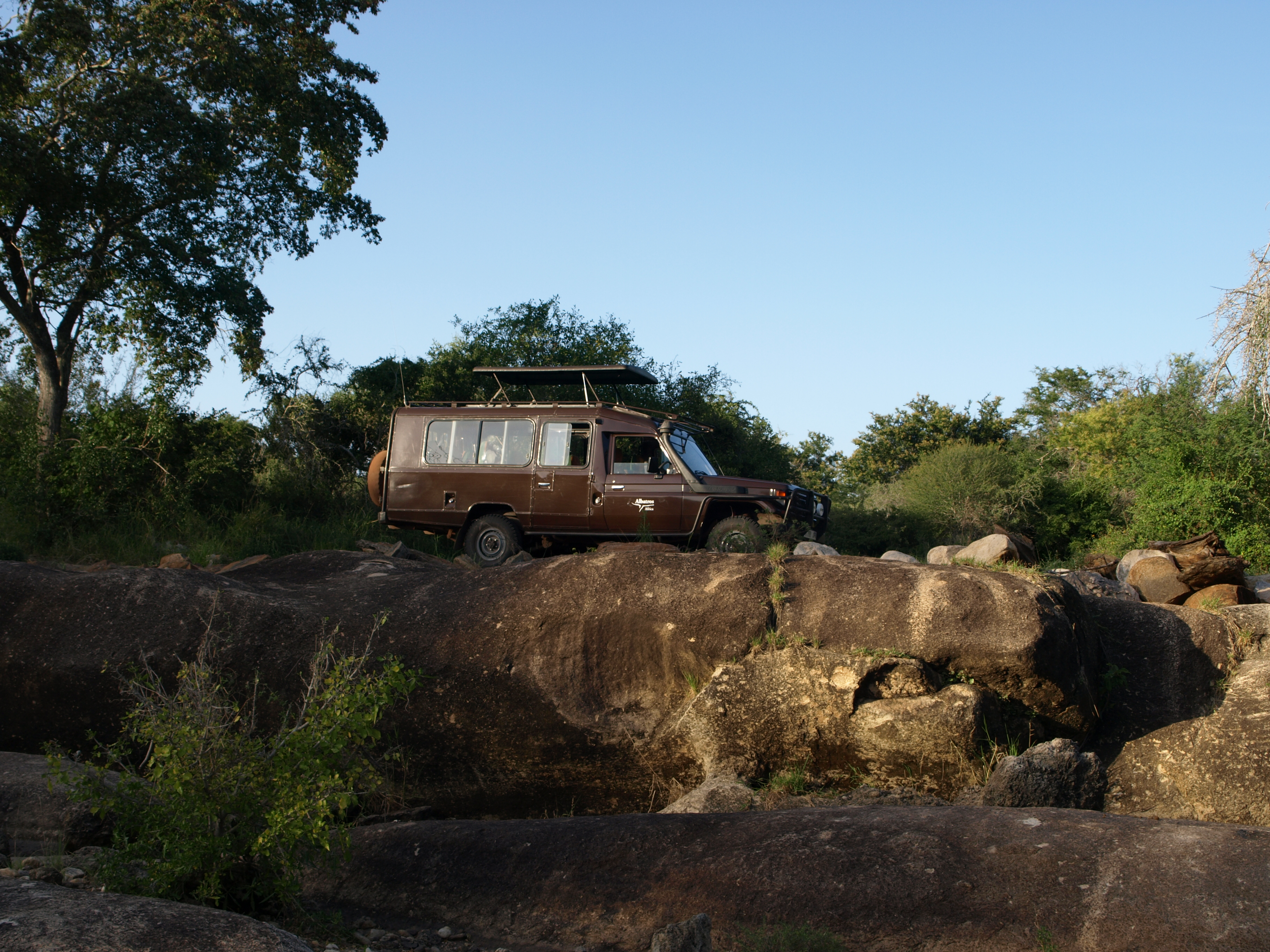 Mkomazi National Park, Tanzania